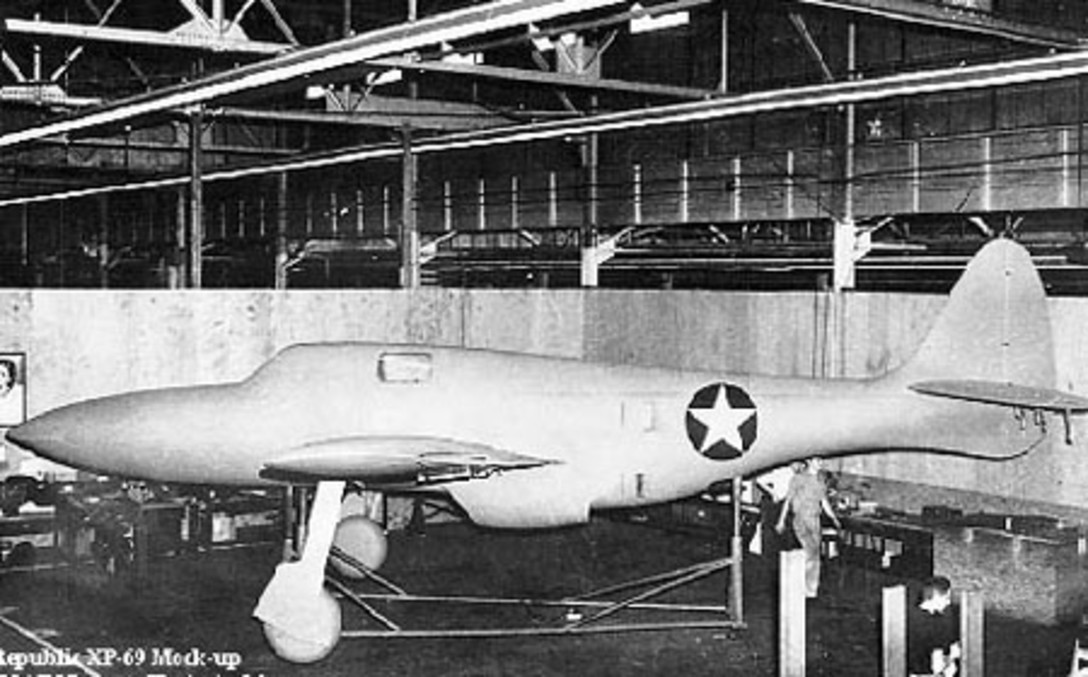 Republic XP-69 3/4 size mock-up. (U.S. Air Force photo)